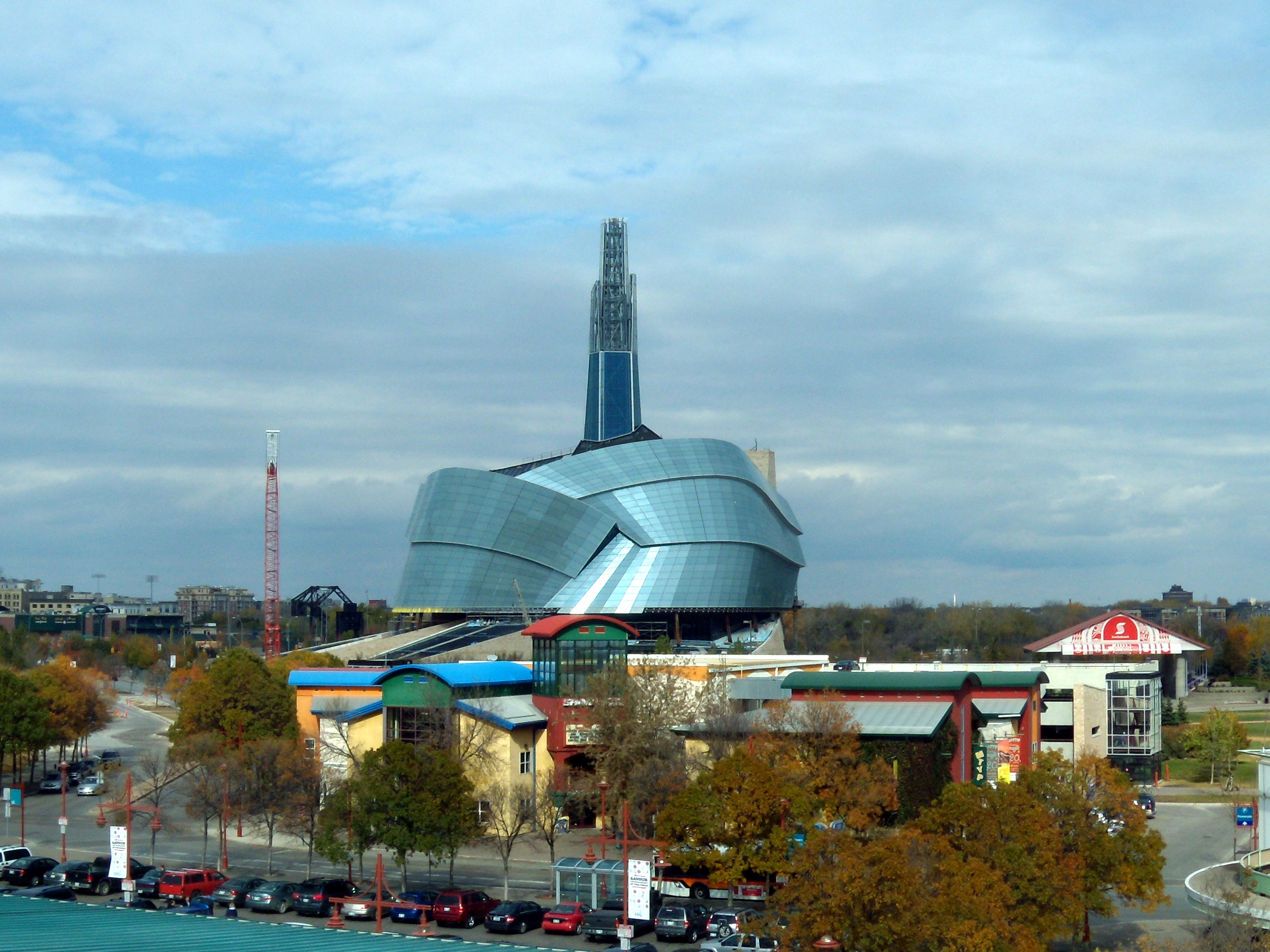 The Canadian Museum for Human Rights as seen from The Forks Tower